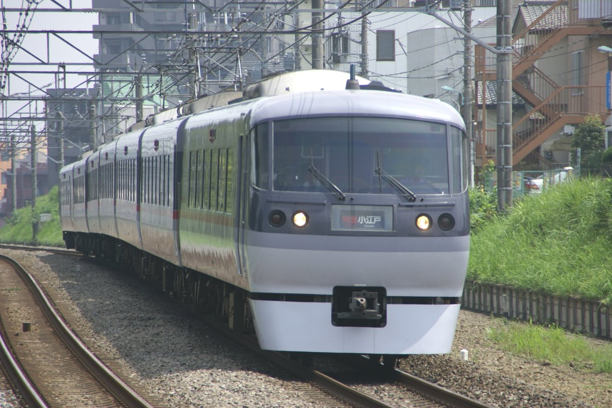 A Seibu 10000 series EMU approaching Kōkū-kōen Station on the Seibu Shinjuku Line on a down Koedo service to Hon-Kawagoe